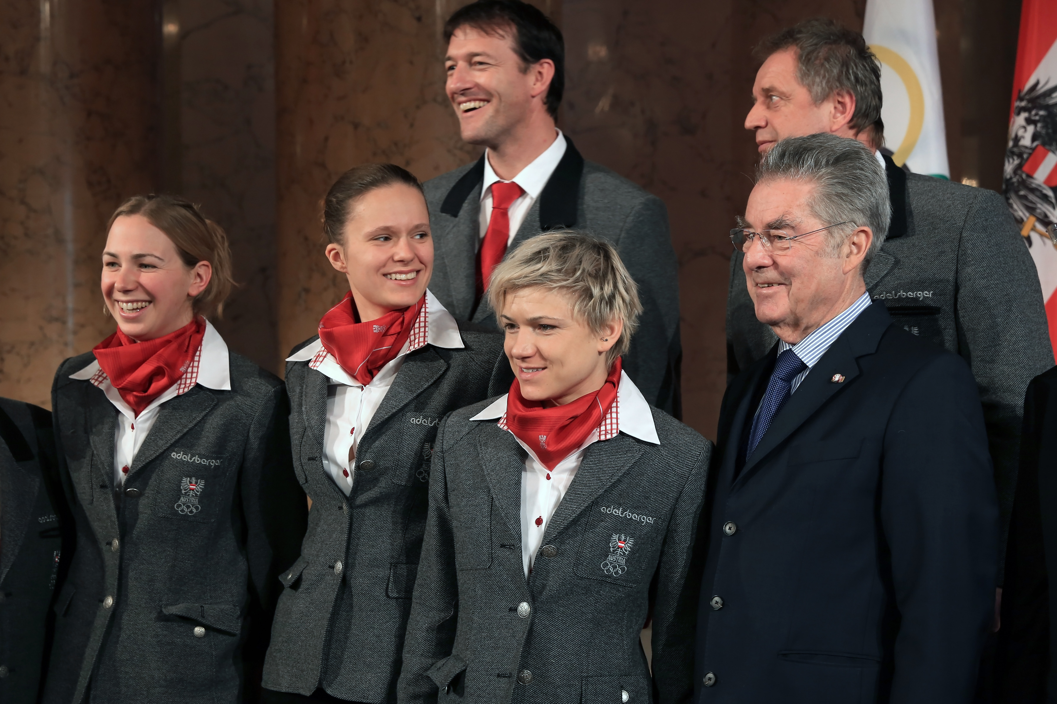 Athletes of the Austrian team for the 2014 Winter Olympics - Speed skating and short track: Vanessa Bittner, Anna Rokita, Veronika Windisch and support team with Federal President Heinz Fischer; group picture taken at Hofburg Palace in Vienna, Austria.